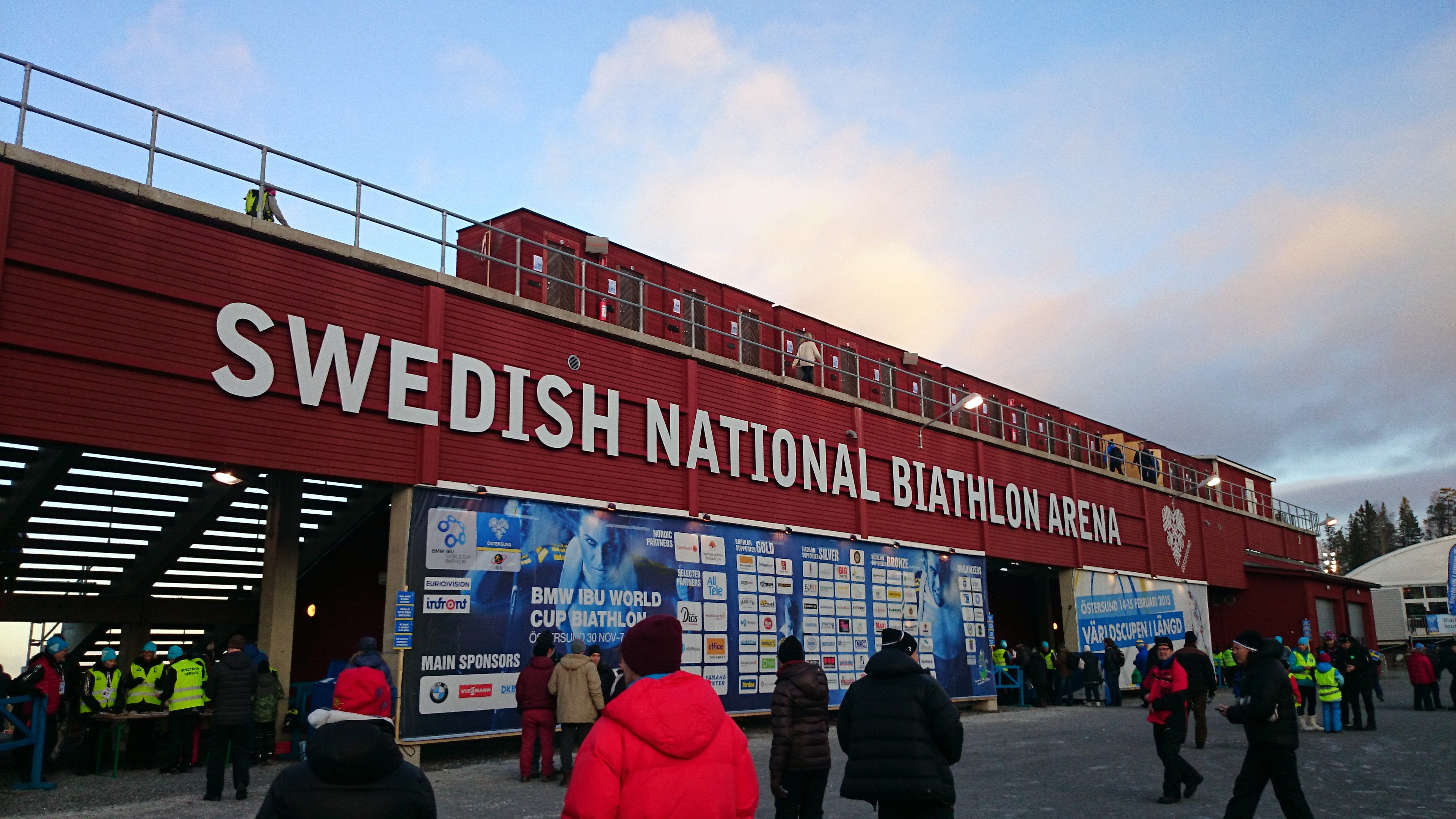 Swedish national biathlon arena